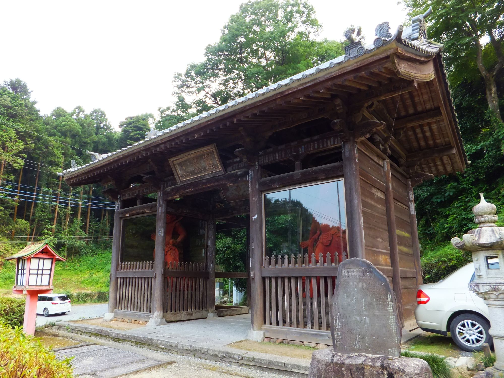 Niōmon gate of Shōbō-ji temple in Higashimatsuyama-shi, Saitama